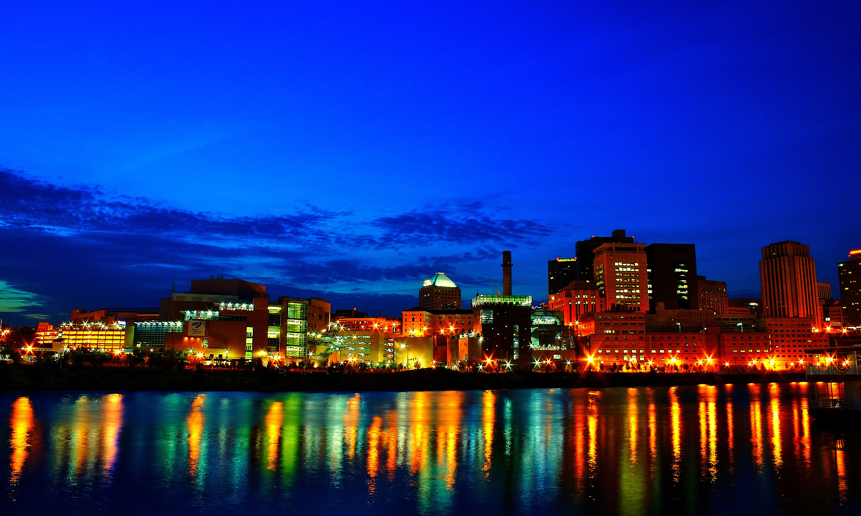 Downtown Saint Paul at dusk along the Mississippi River during the Taste of Minnesota from Harriet Island. This was also my first experience carrying the Sony GPS-CS1 and automatically tagging the EXIF data -- so simple and so awesome!